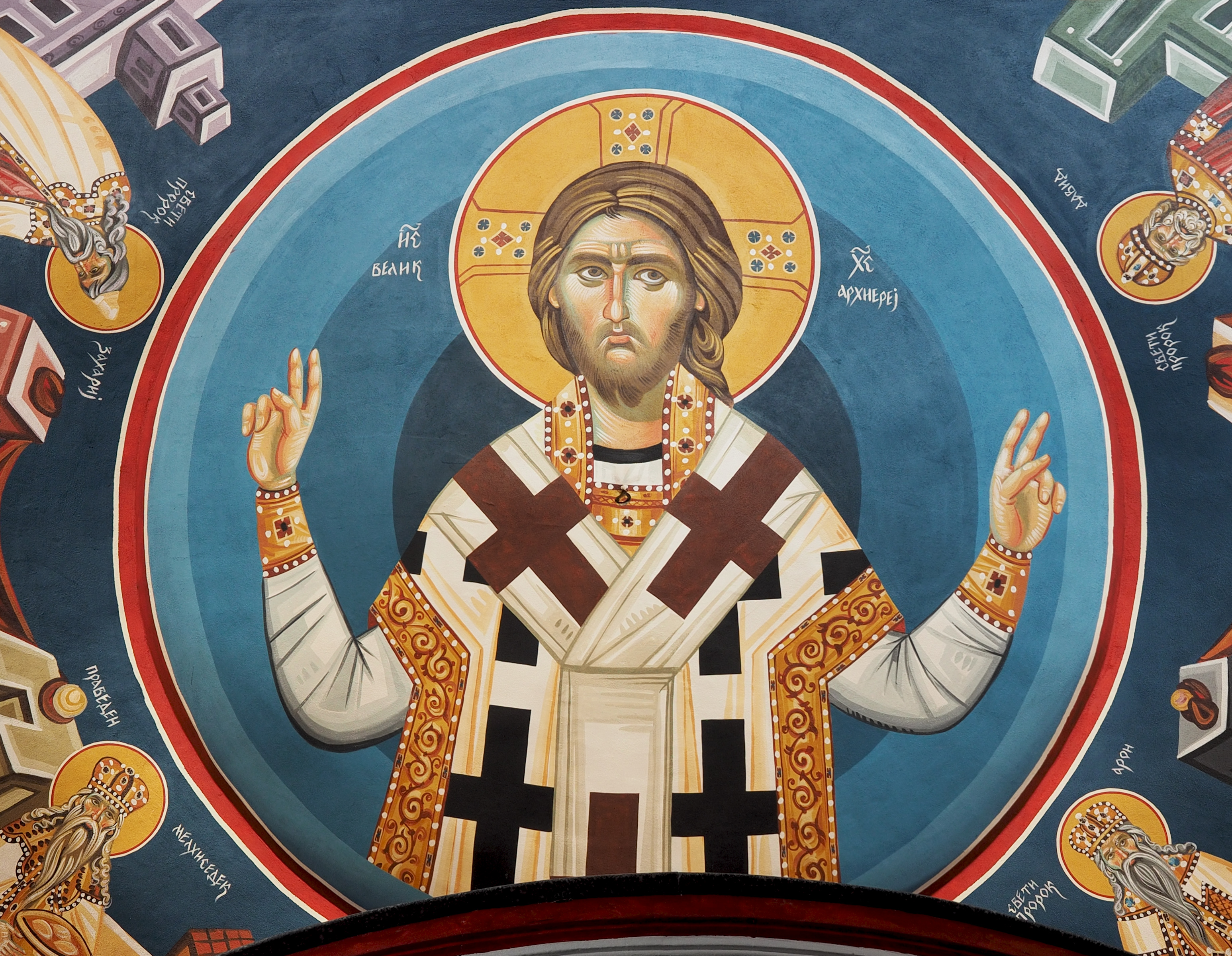 Roof fresco of Pantokrator, Nativity of the Theotokos Church, Bitola, Macedonia Српски (ћирилица): Пантократор, фреска, црква свете Богородице, Битољ This photograph was taken with an Olympus E-M1